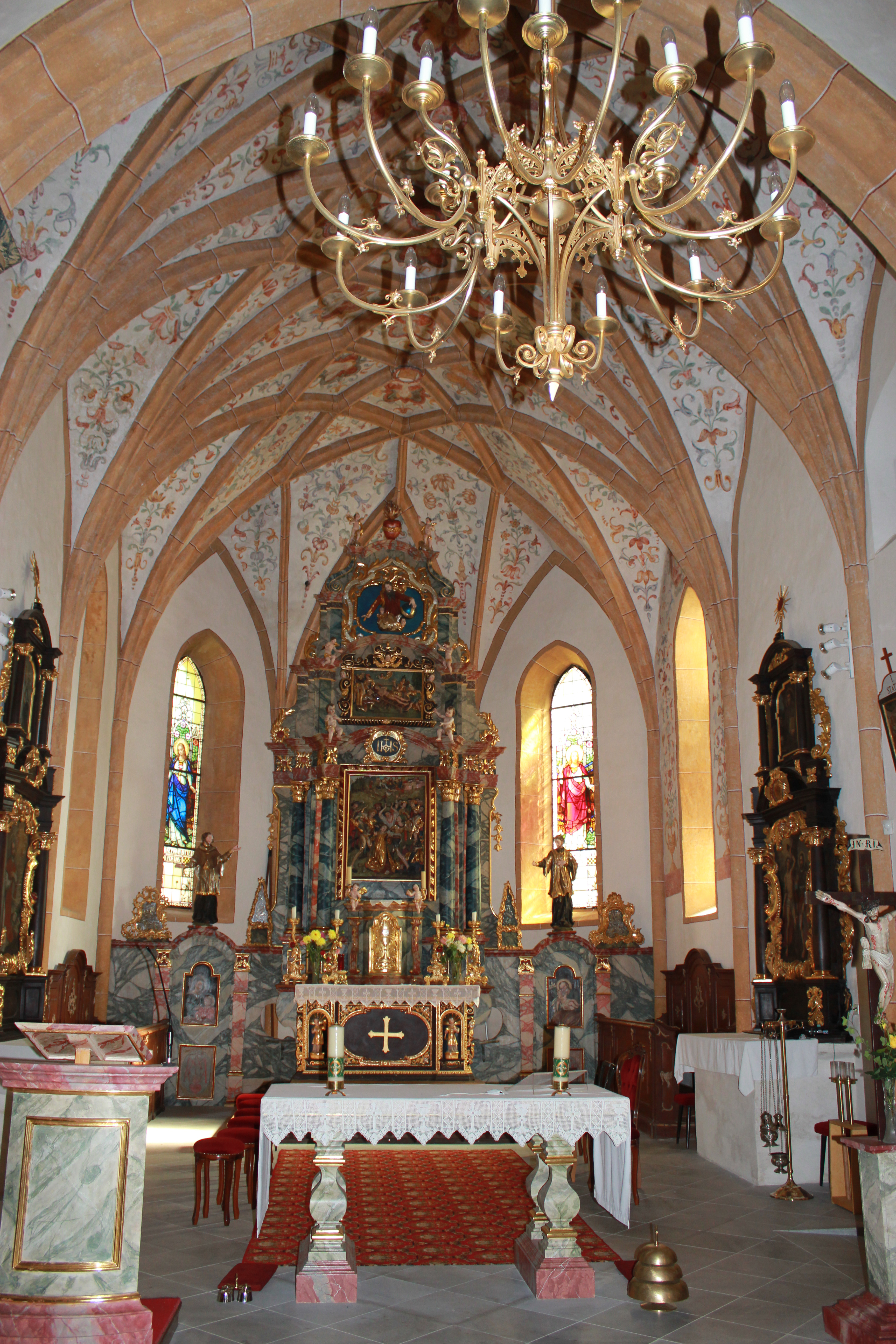 Church of St. Stefan in the community of Sankt Stefan im Gailtal - Choir